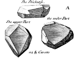 Sketch of the uncut Hope diamond